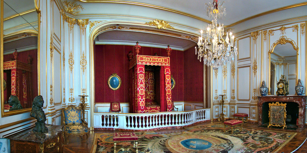 Château de Chambord, Loir-et-Cher, Centre, France. Louis XIV ceremonial bedroom.